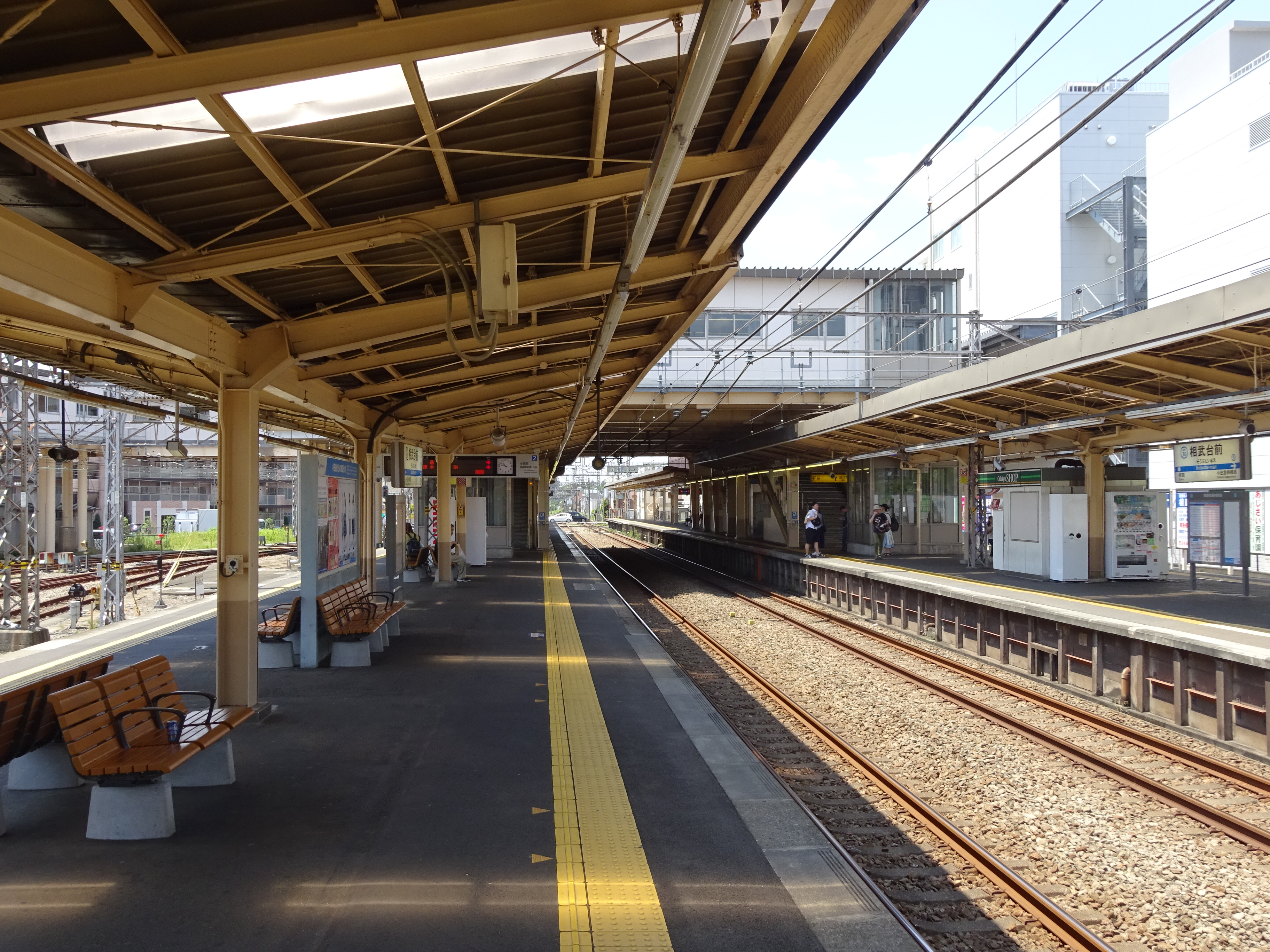 Platforms of Sōbudai-mae Station